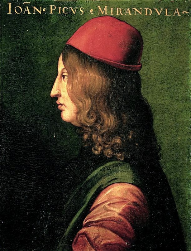 Pico della Mirandola, one of a series of Medici family and associates, some fro life, some posthumous.